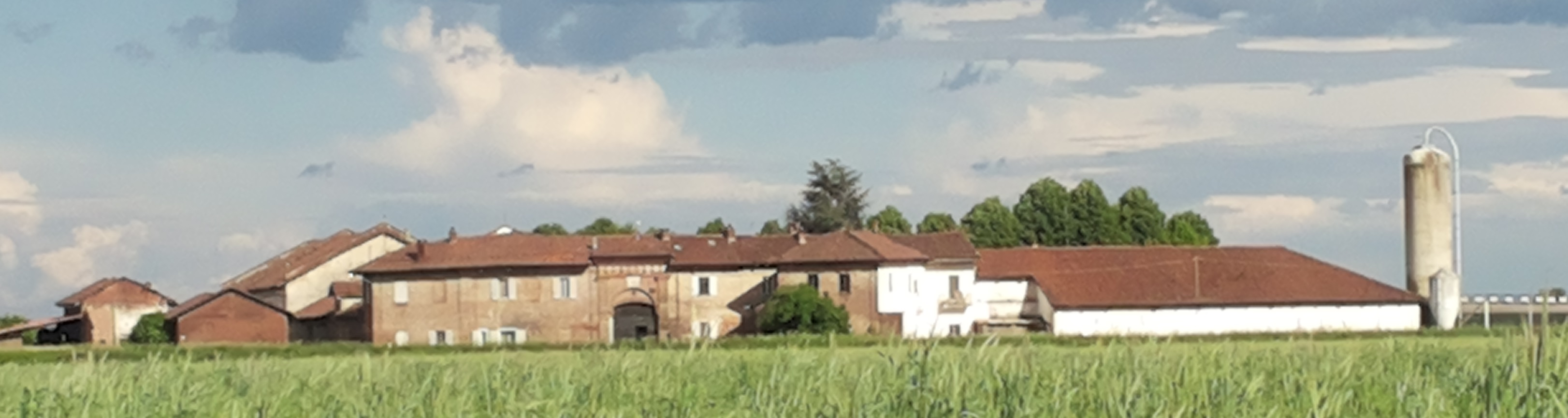 Cascina Motta